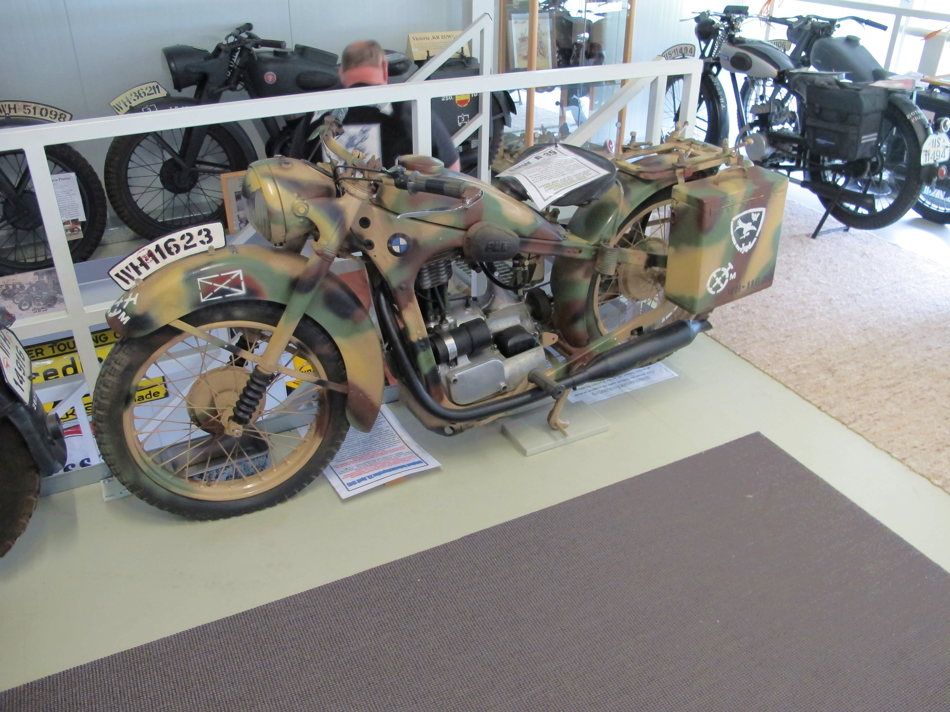 German Motorcycle, Military Motorycycle of World War II, BMW R35